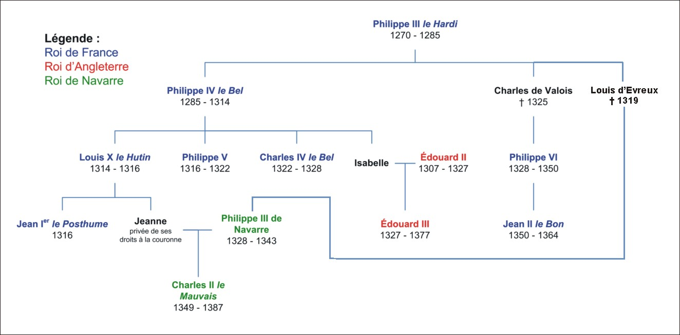 Relations between the House of Plantagenet and the Capetian dynasty